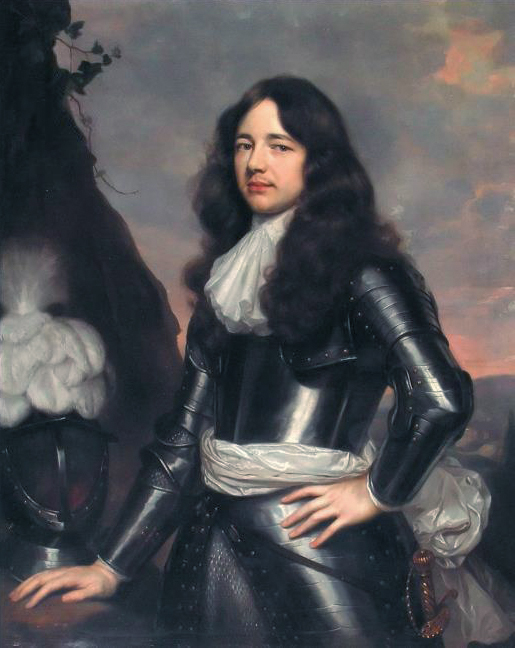 Alexander Bruce (1629-1680) oil on canvas 116 x 89 cm 1660 - 1670